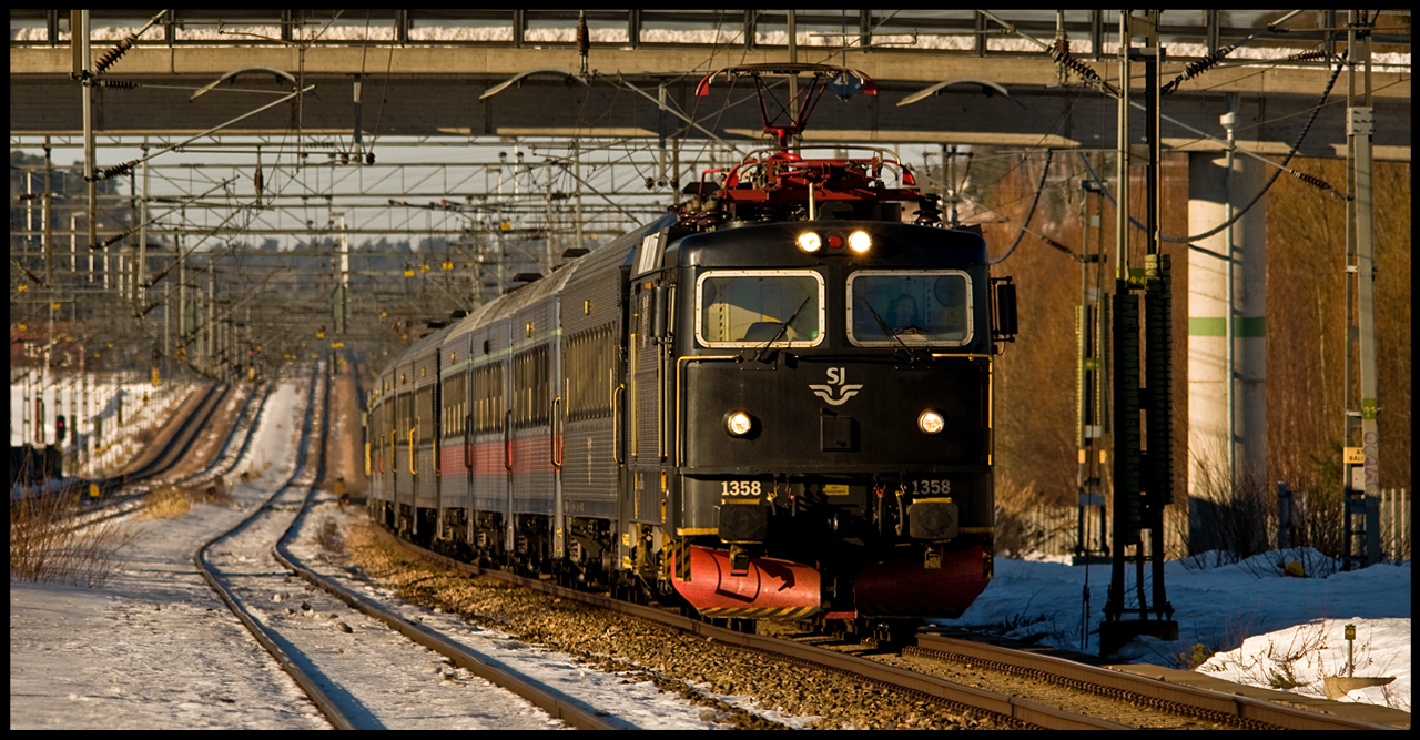 The typical 10-wagon "Uppsalashuttlecommutertrain" at Rotebro in Mars 2011